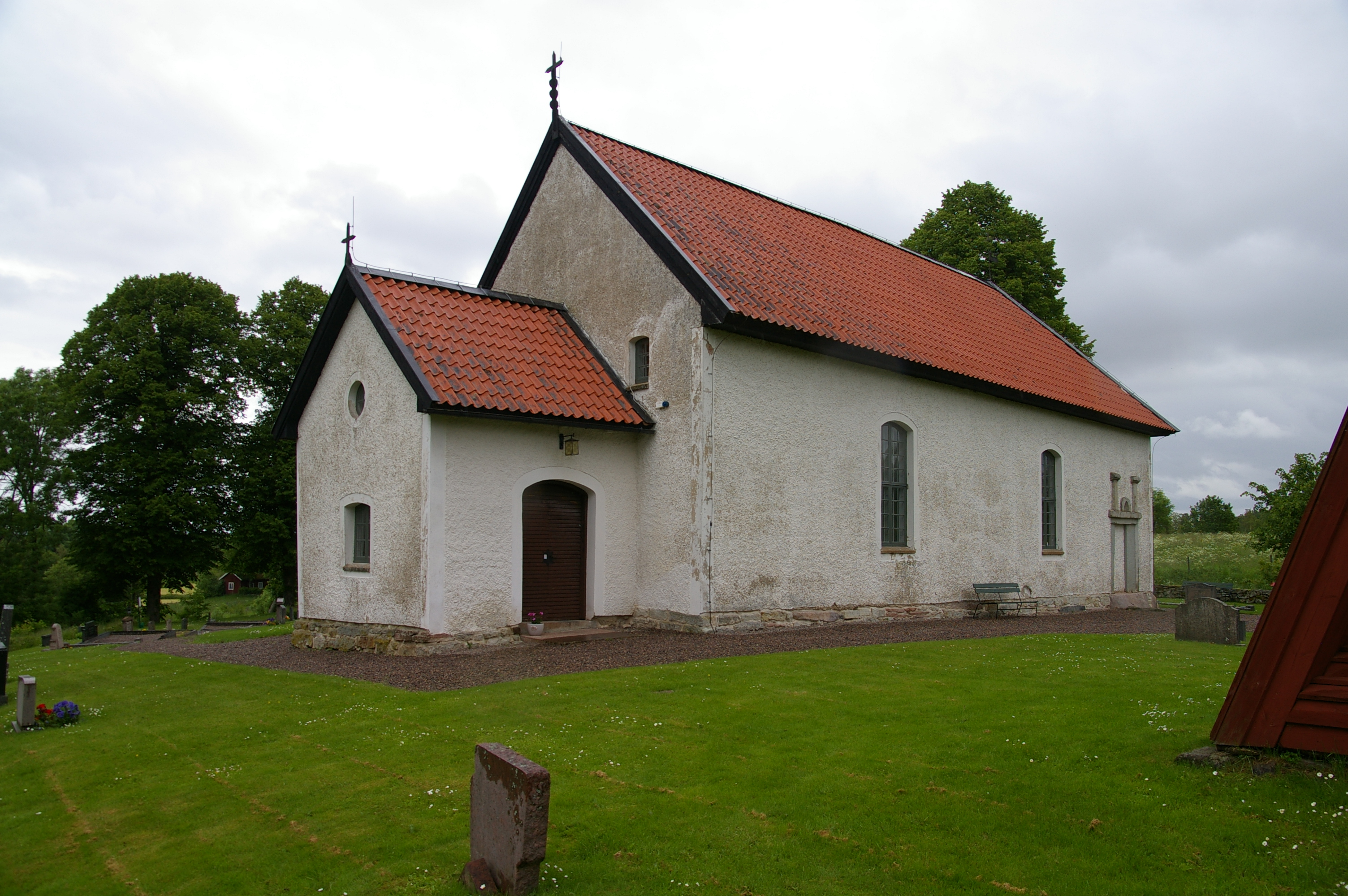 Ugglums kyrka (Swedish:Church of Ugglum) in Västergötland, Sweden. Built in 1820 and renovated 1914.